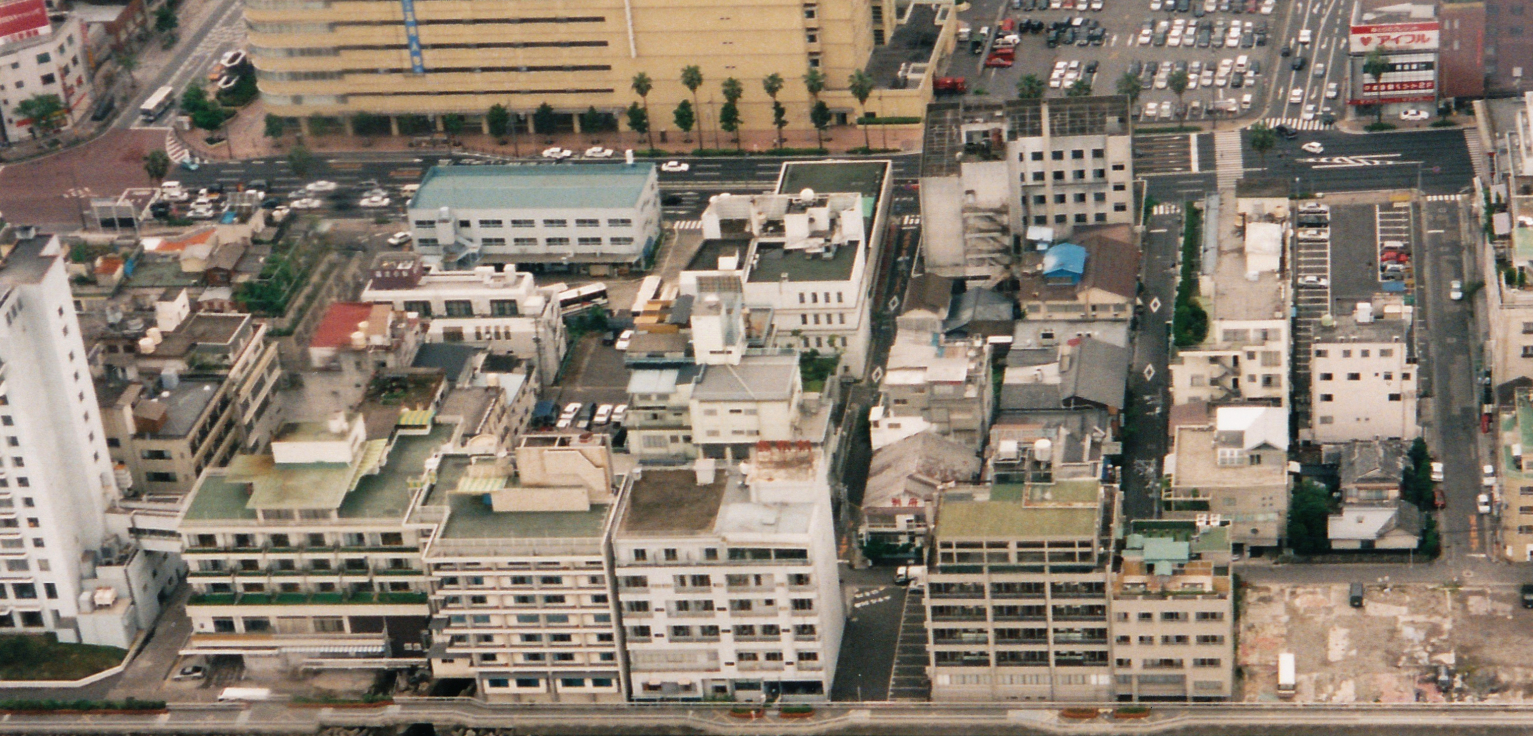 Beppu City Kitahama Beach 1998-05 (Aerial photograph)